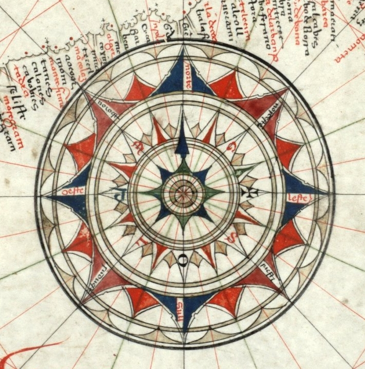 Wind rose from the chart of Jorge de Aguiar, 1492